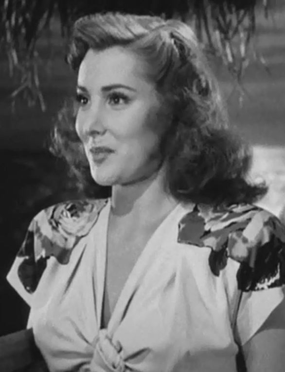 Low resolution screenshot of Gloria Warren as Rona Simmonds and Joseph Allen (credited as Joe Allen Jr.) as George Brace from the American film Dangerous Money (1946). The film is in the public domain due to the omission of a valid copyright notice on its original prints.